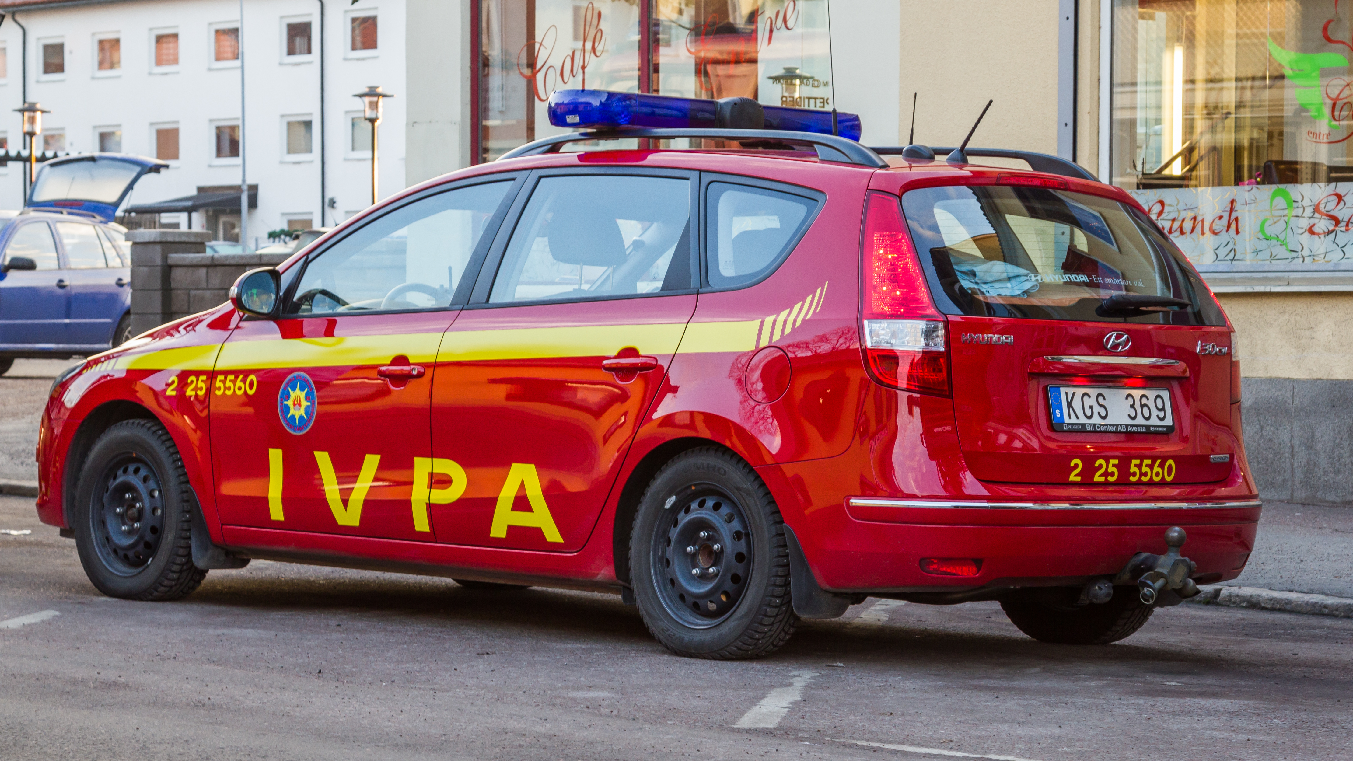 2009 Hyundai IVPA (~paramedic) automobile. Hedemora, Dalarna county, Sweden.